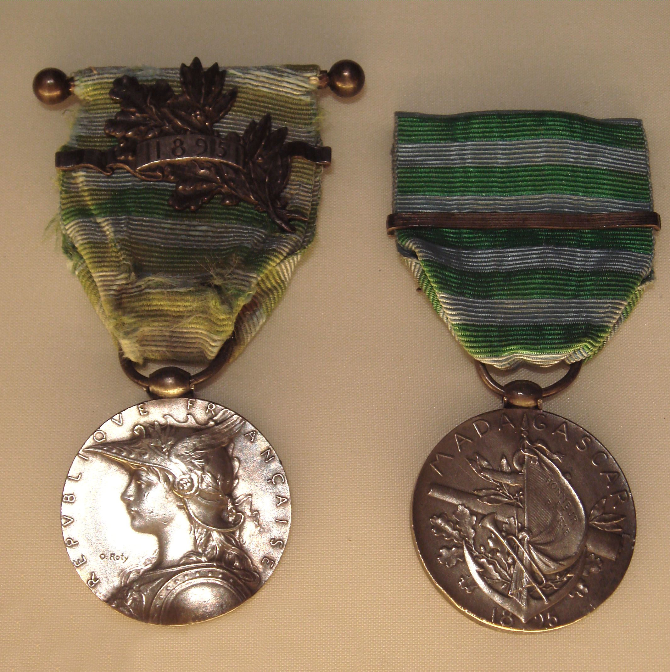 Medal_of_the_Second_Madagascar_Expedition_law_of_15_January_1896 by Oscar Roty